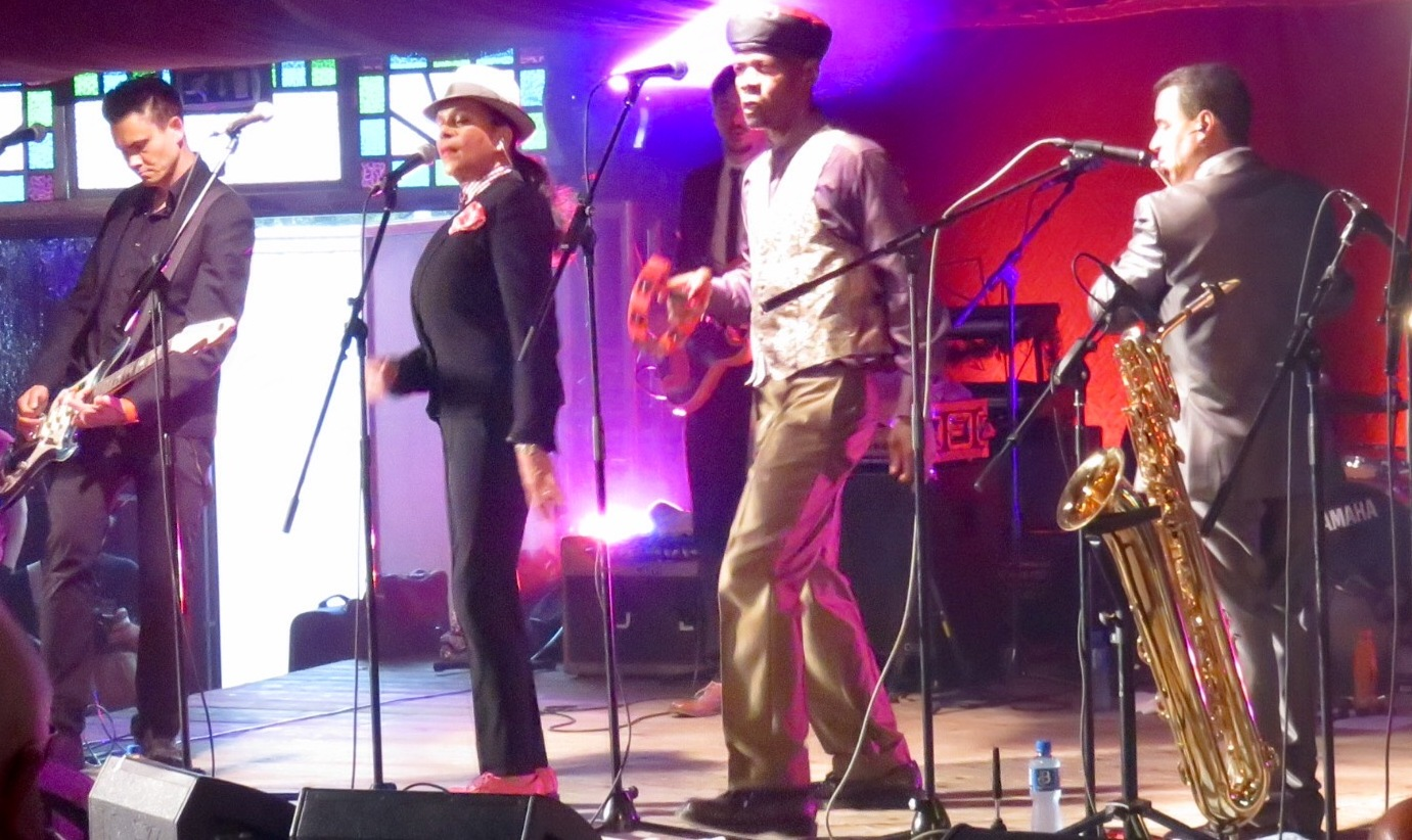 The Selecter on stage for the Milton Keynes International Festival, Milton Keynes, July 2016